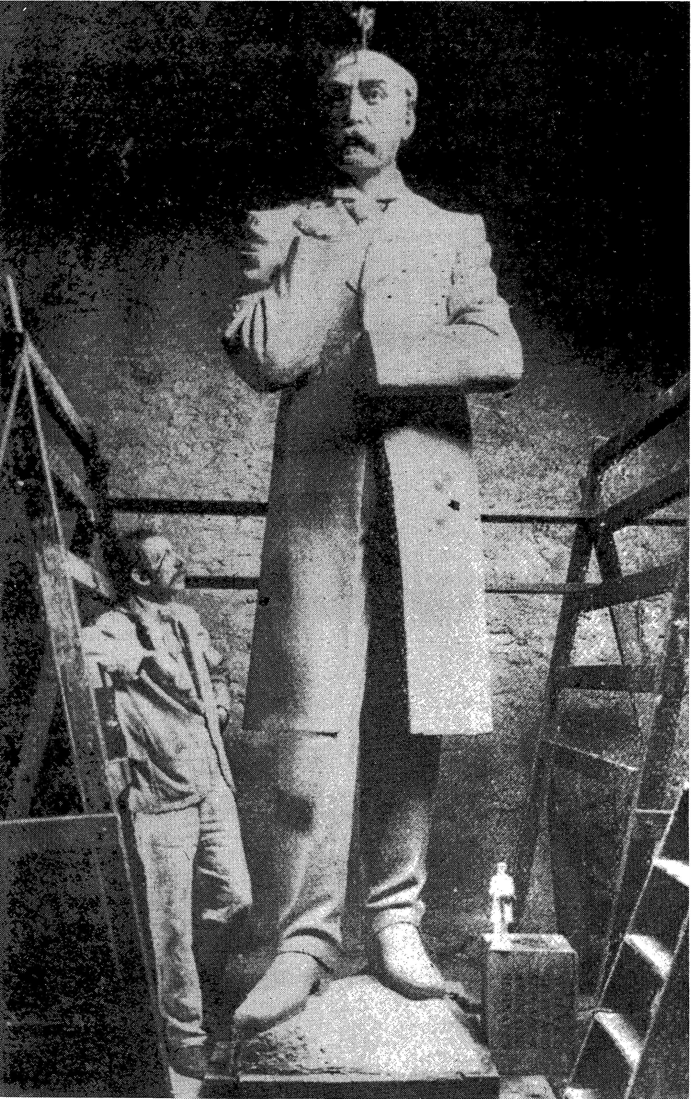 This is a picture of scultor Pietro Porcelli at work on his statue of C. Y. O'Connor, probably in 1910 or 1911.